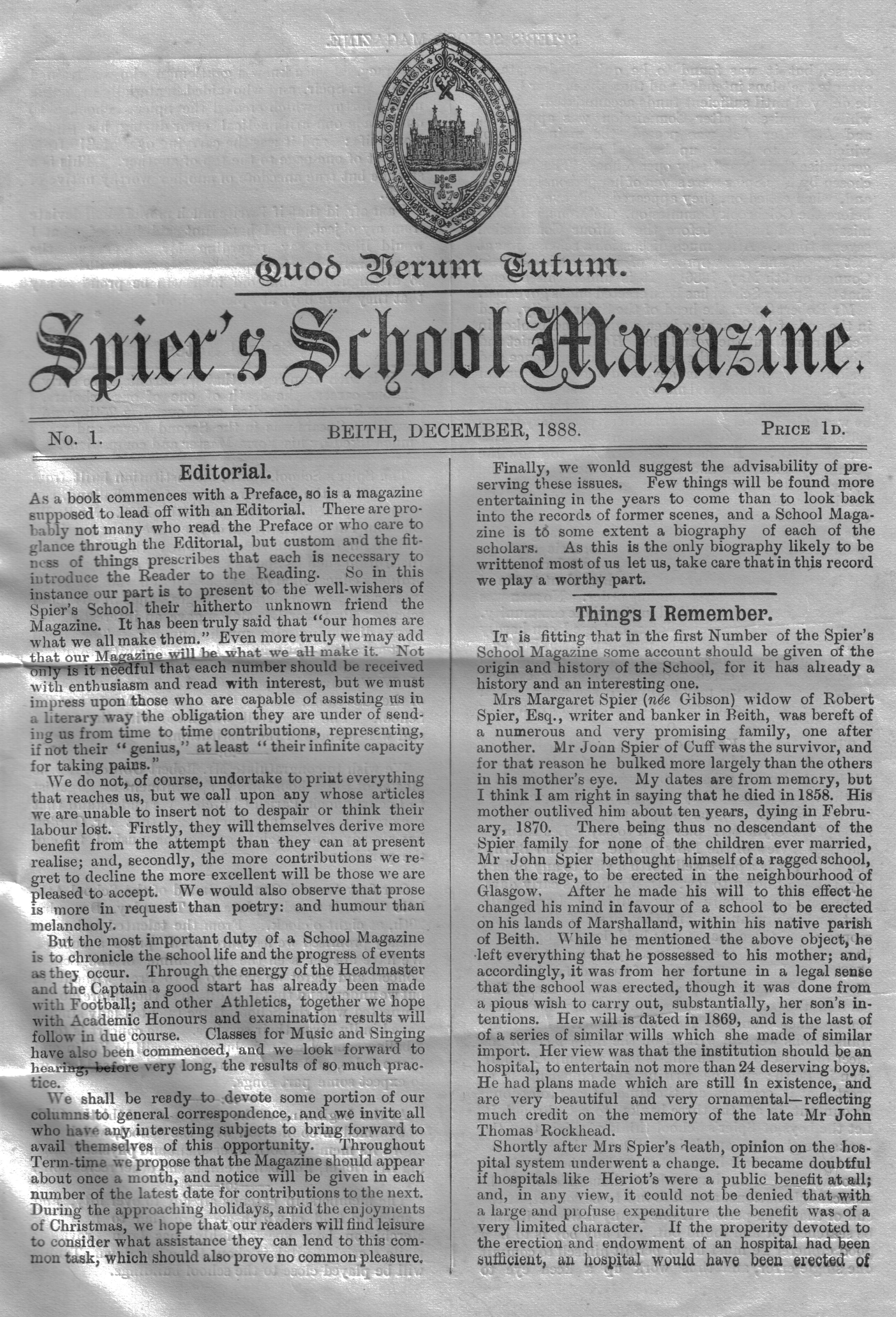 Spier's School Magazine - No.1, December 1888. Beith, North Ayrshire, Scotland.